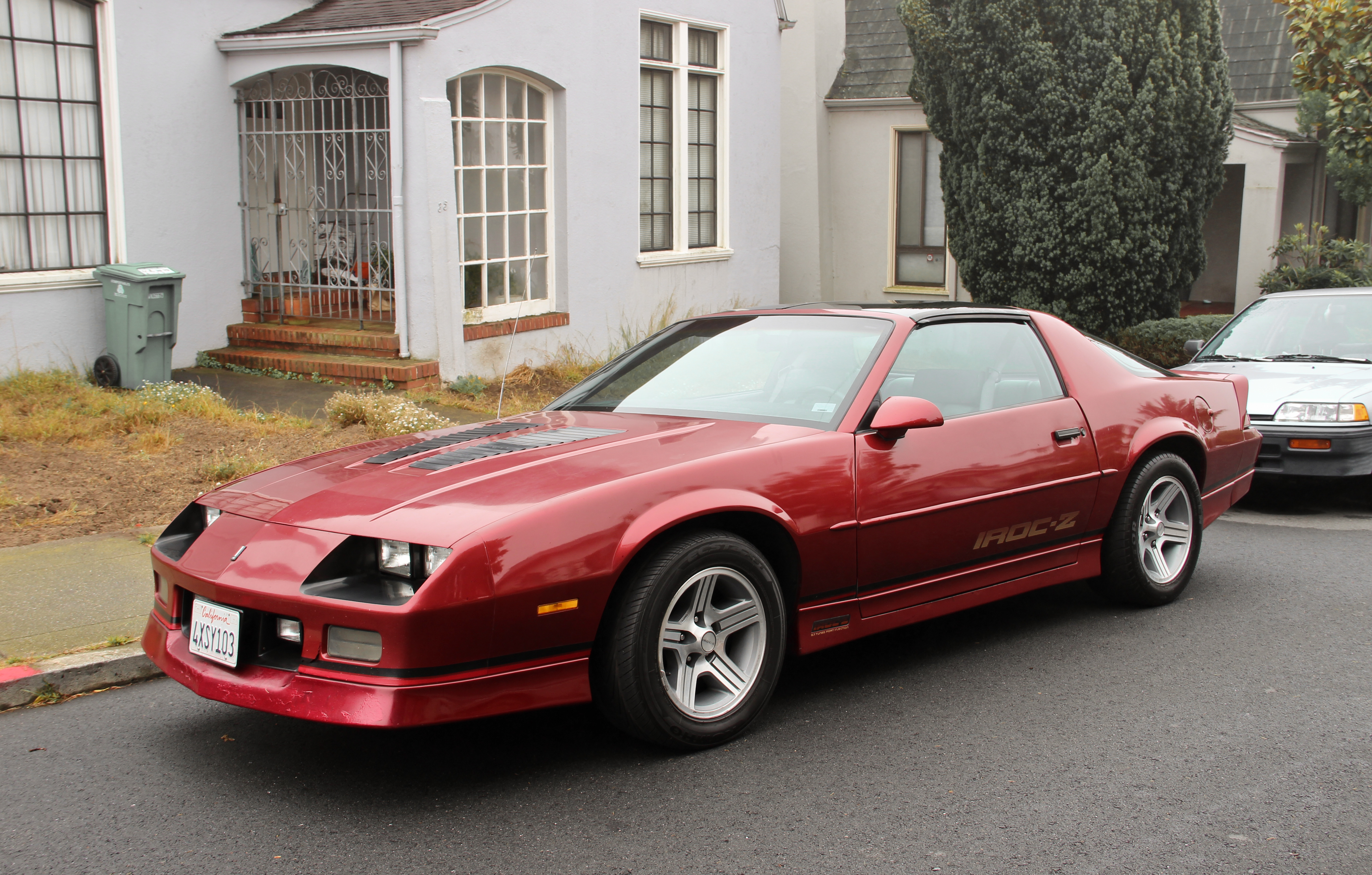 ThirdGen Cruise To santa Cruz